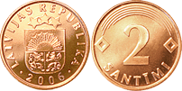 2 Santimi Latvia Obverse: The small coat of arms of the Republic of Latvia, encircled by the inscription LATVIJAS REPUBLIKA • 1992, LATVIJAS REPUBLIKA • 2000 or LATVIJAS REPUBLIKA • 2006 (Republic of Latvia 1992, 2000 or 2006), is placed in the centre. Reverse: The numeral 2 is centered on the coin. The inscription SANTIMI, arranged in a semicircle, is beneath the numeral 2. Above the numeral, five arcs join two diamond-shaped suns which are located on either side of the numeral 2. Edge: plain.